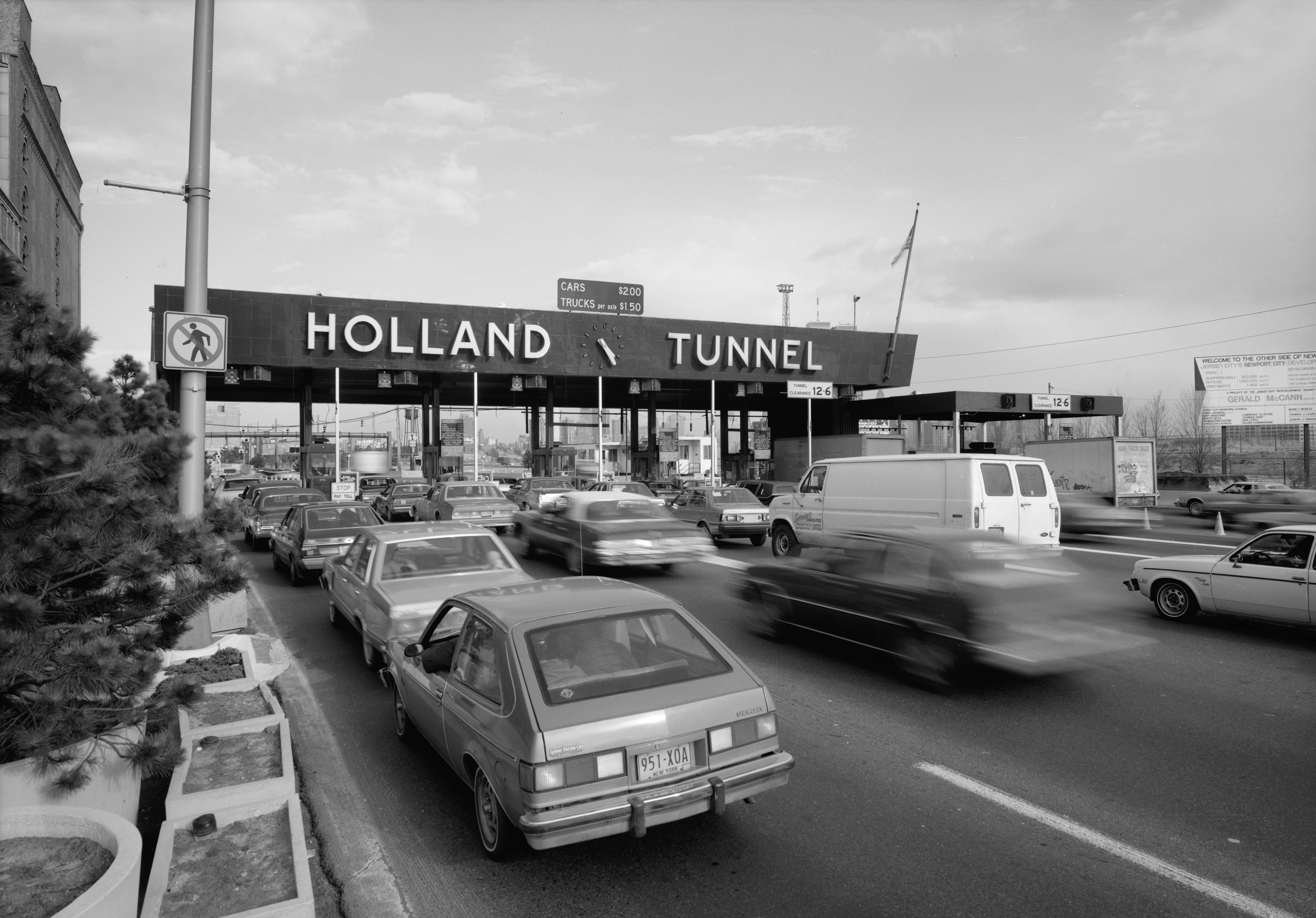 Holland Tunnel toll booth in New Jersey.